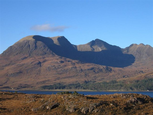 Beinn Alligin in Autumn Sunshine. This photo covers several sectors, with much of the mountain foreground including the western summit of Tom na Gruagaich lying within NG8560. This photo was taken in late afternoon with the setting sun highlighting the west and south-facing ground.